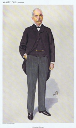 Caricature of Emile Garcke. Caption read "Electrical Energy".